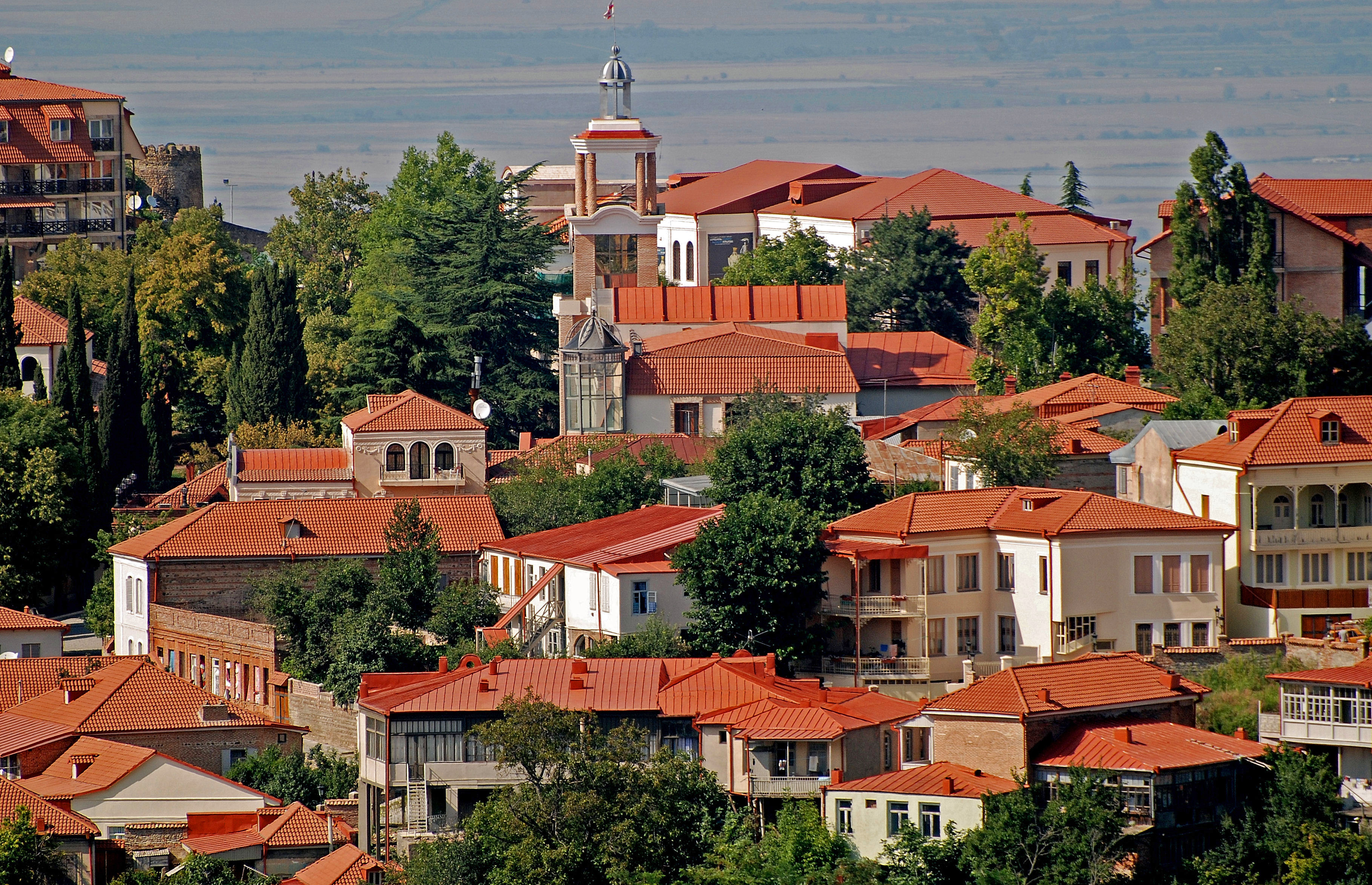 Signaghi, Georgia, August 2009